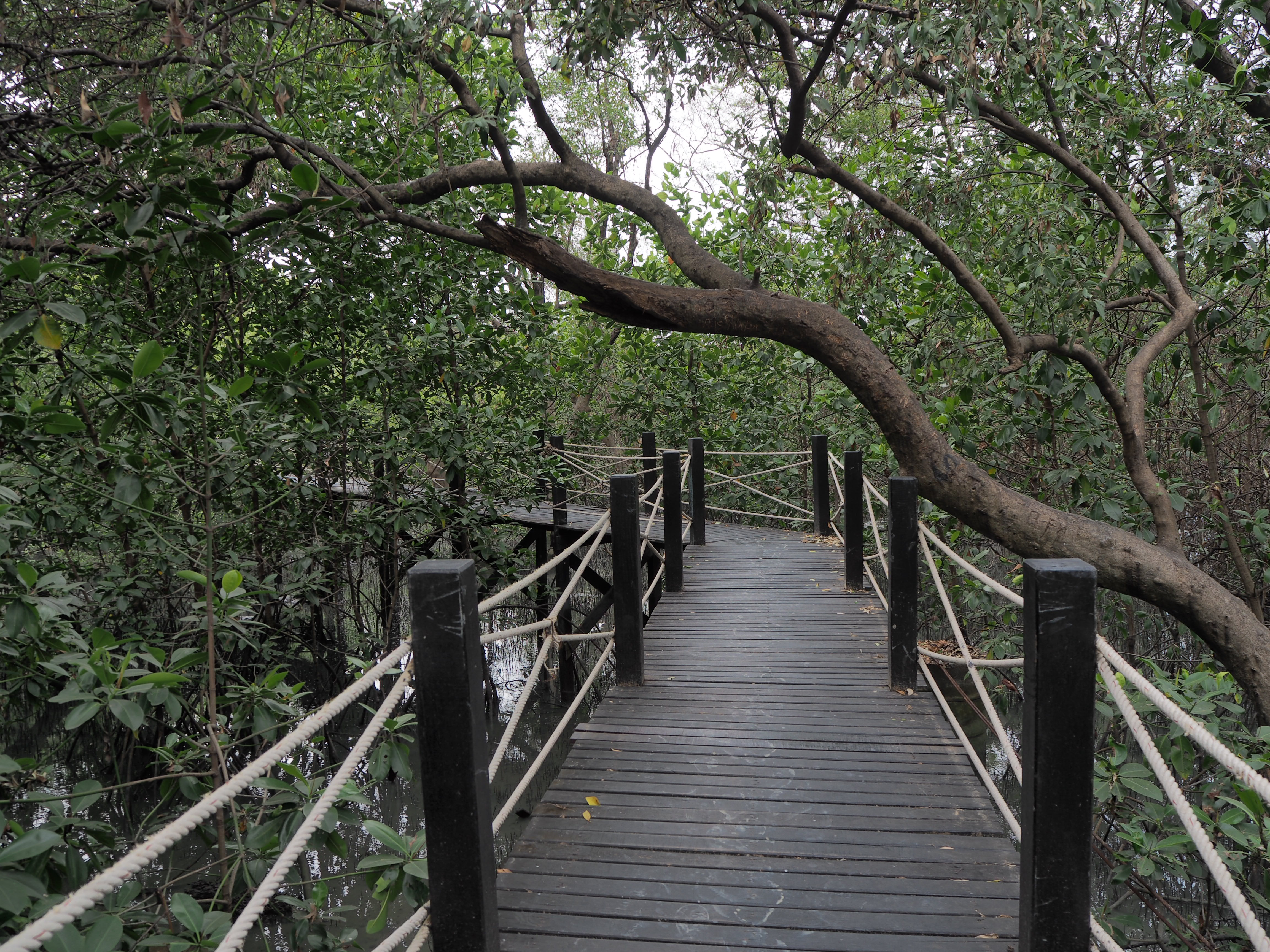 a part of passage way in ศูนย์ศึกษาธรรมชาติและอนุรักษ์ป่าชายเลนเพื่อการท่องเที่ยวเชิงนิเวศ, Chonburi, Thailand